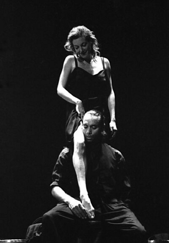 A snapshot of a live performance of Ute Lemper (1992) by Alberto Terrile.